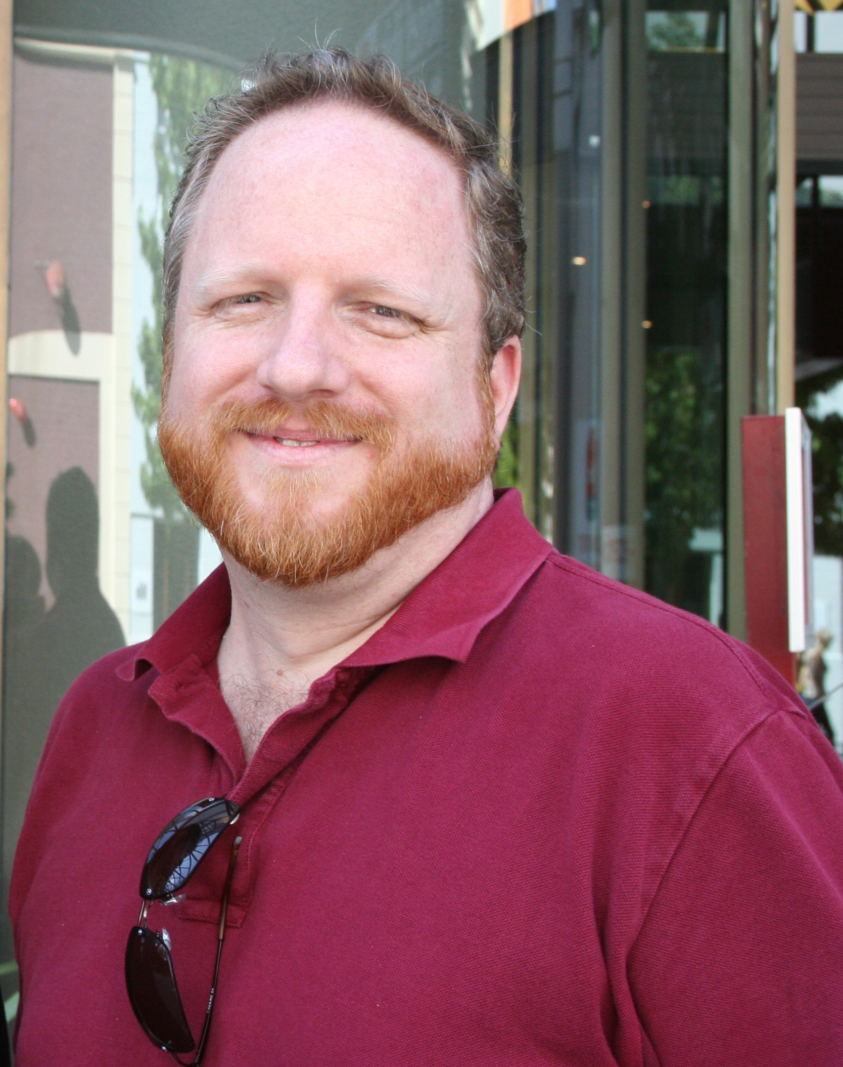 Rod Fergusson.